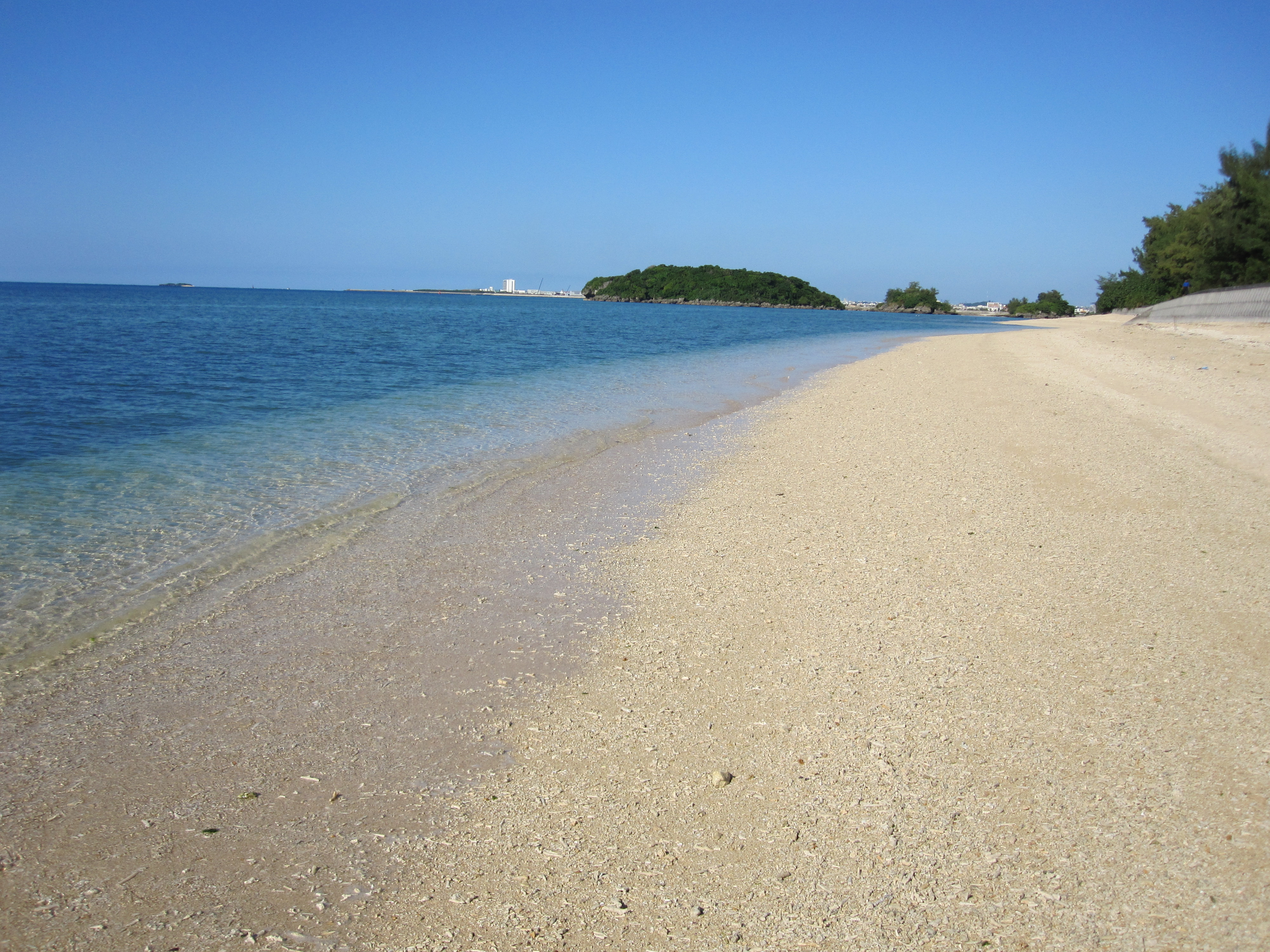 Kitanashiro Beach, Itoman City, Okinawa prefecture, Japan